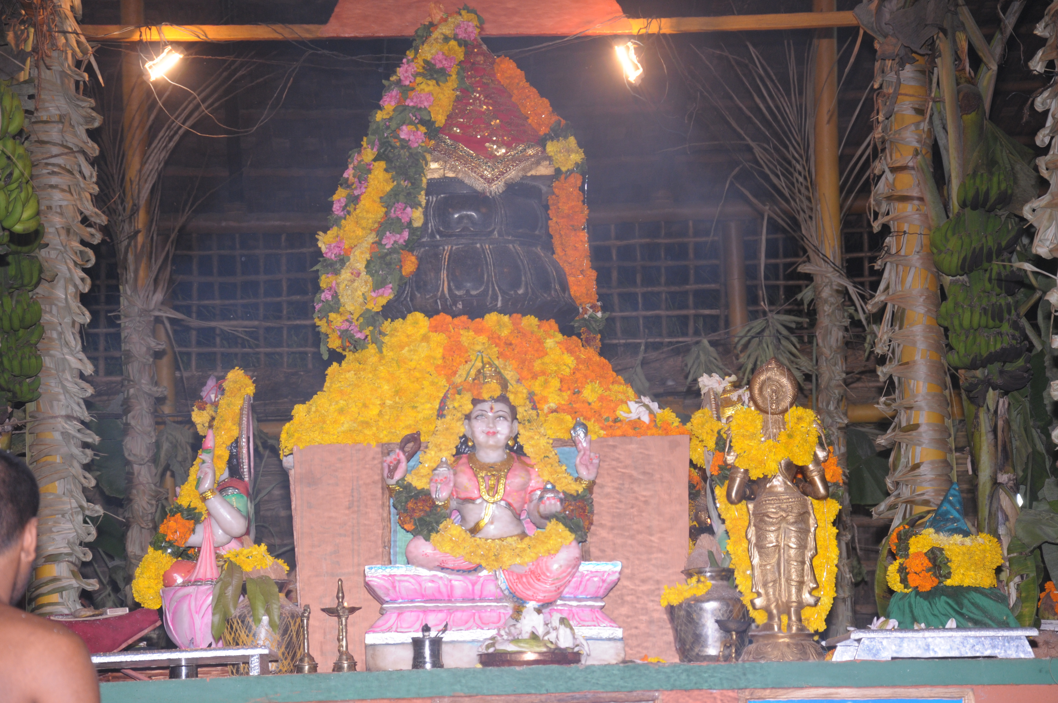 srichakra peetham at ahoratram yagasala